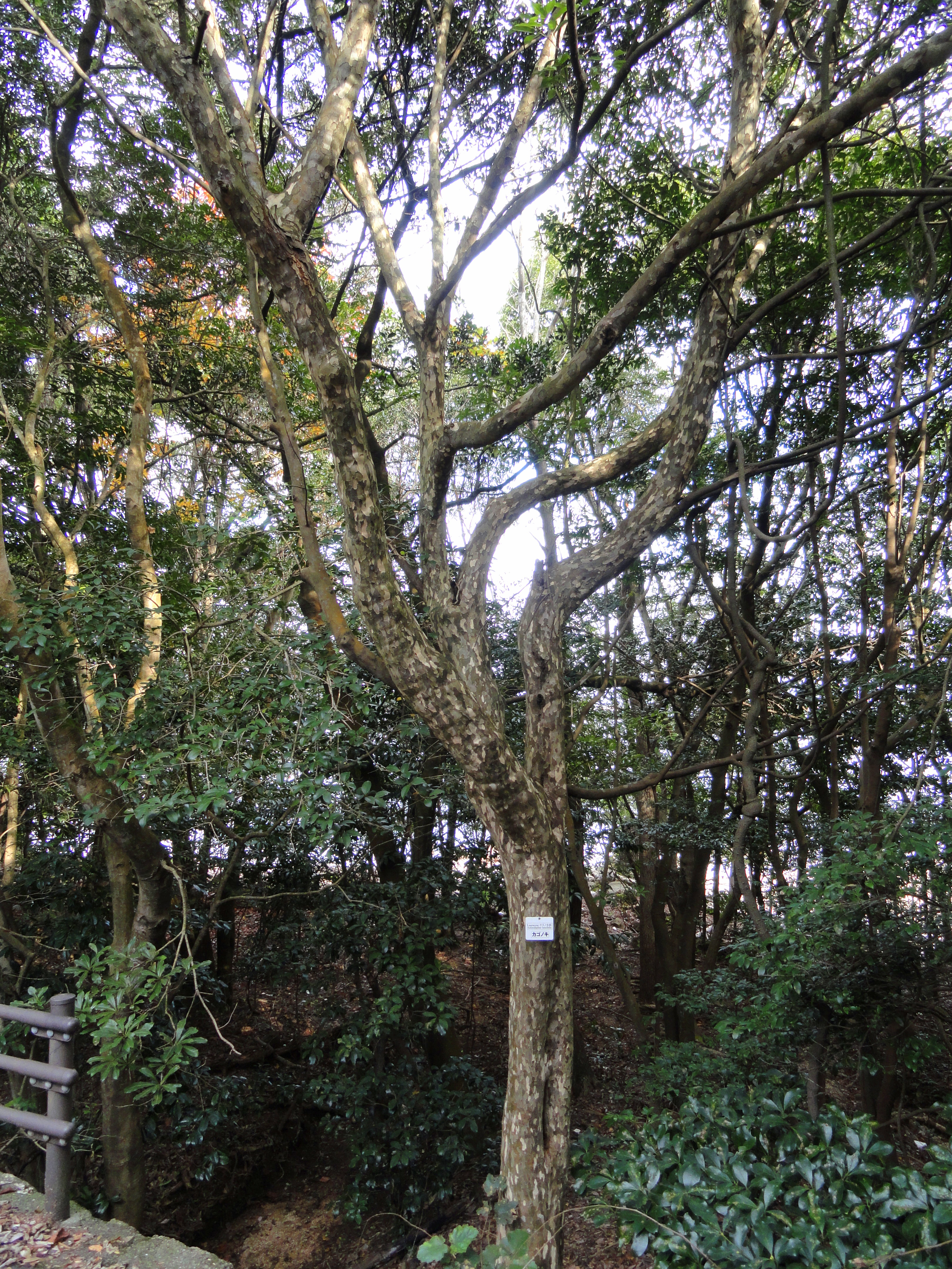 Botanical specimen in the Miyajima Natural Botanical Garden, Hatsukaichi, Hiroshima, Japan.